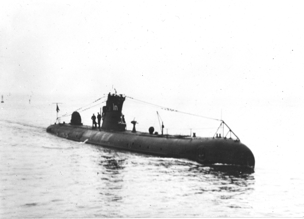 Picture from 1921 of the Swedish submarine HMS Illern.